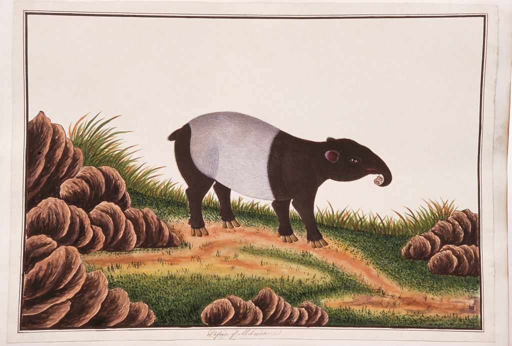 A watercolour drawing of an adult Malayan tapir or Asian tapir (Tapirus indicus, known in Malay as the cipan, badak murai or tenuk). The drawing is one of 477 natural history drawings of plants and animals of Malacca and Singapore commissioned by William Farquhar.